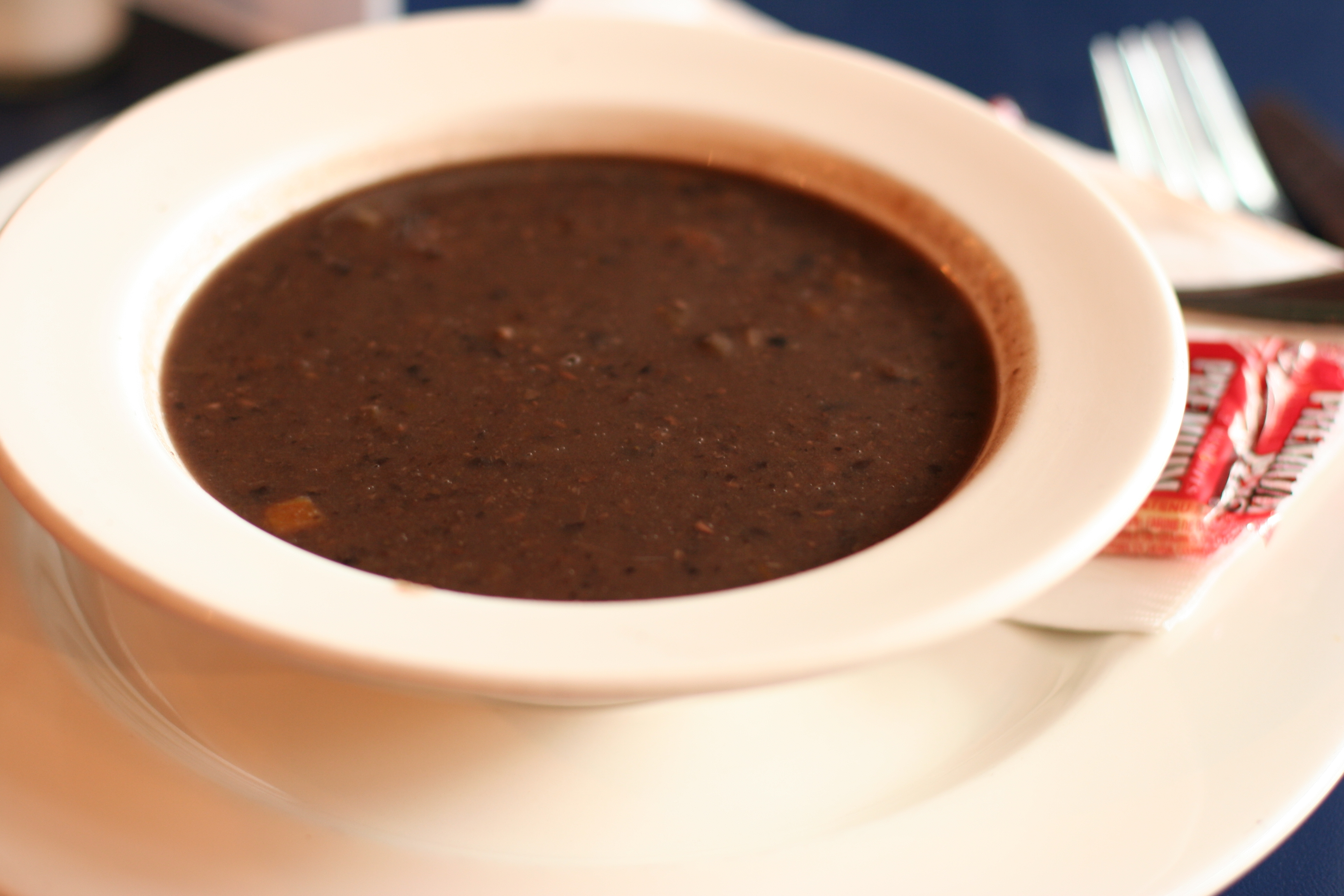 from Zachary's on Robson, restaurant in Vancouver, BC, Canada. Read my review at